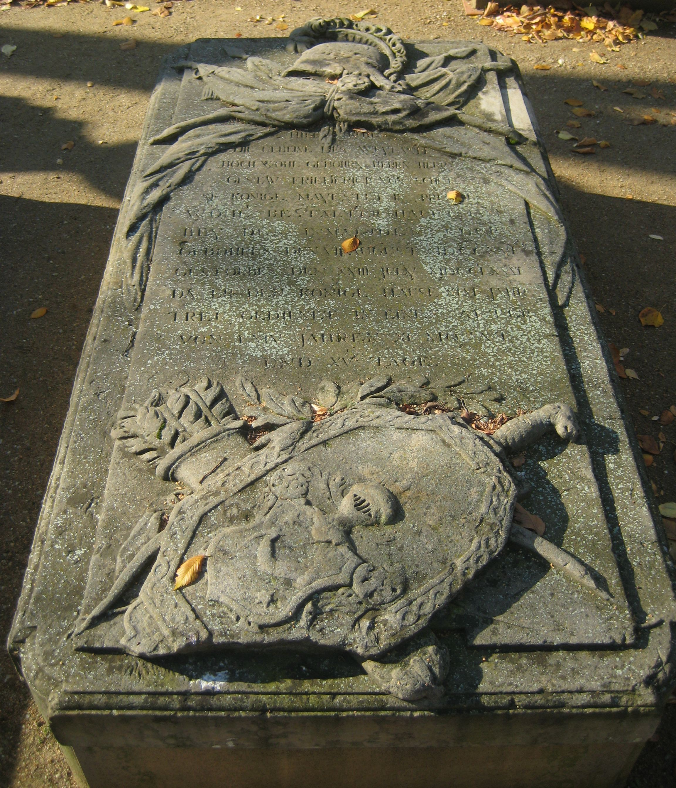 grave of Gustav Friedrich von Schütz (1716-1781) on Invalidenfriedhof cemetery in Berlin, Germany